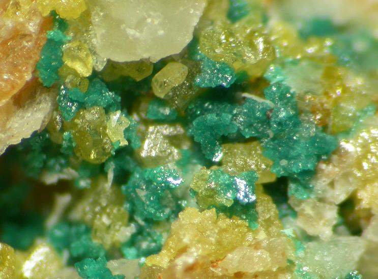 Herbertsmithite, Wulfenite Locality: Kali Kafi Mine (Kale Kafi Mine), Anarak District, Esfahan Province (Isfahan Province; Aspadana Province), Iran Small greenish blue crystals of herbertsmithite. Field of view 4mm. Specimen and photo Leon Hupperichs.